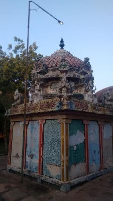 Vallam kothandaramar temple வல்லம் கோதண்டராமர் கோயில்